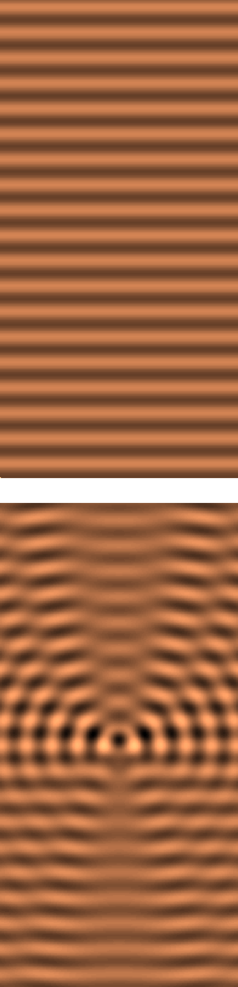 Illustration of Scattering theory.